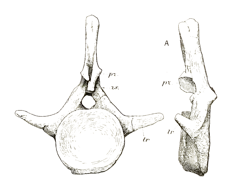 Cetiosaurus leedsi - Anterior caudal vertebra; posterior and (A) right lateral aspects. pz., postzygapophysis; tr., transverse process; zs., zygosphene. [Brit. Mus. no. R. 1984] About 1/8 nat. size.